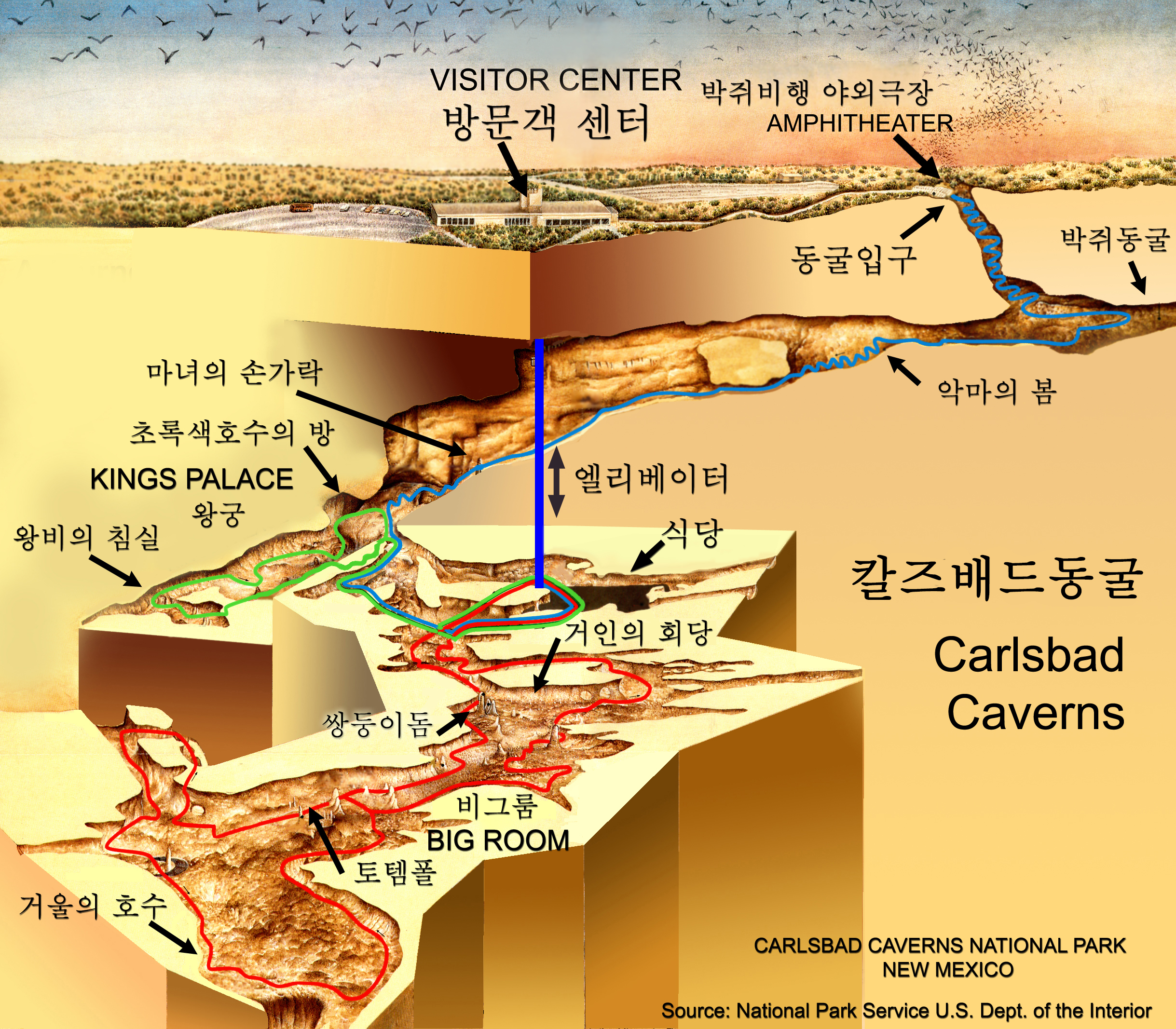 Carlsbad Caverns National Park 3-D View